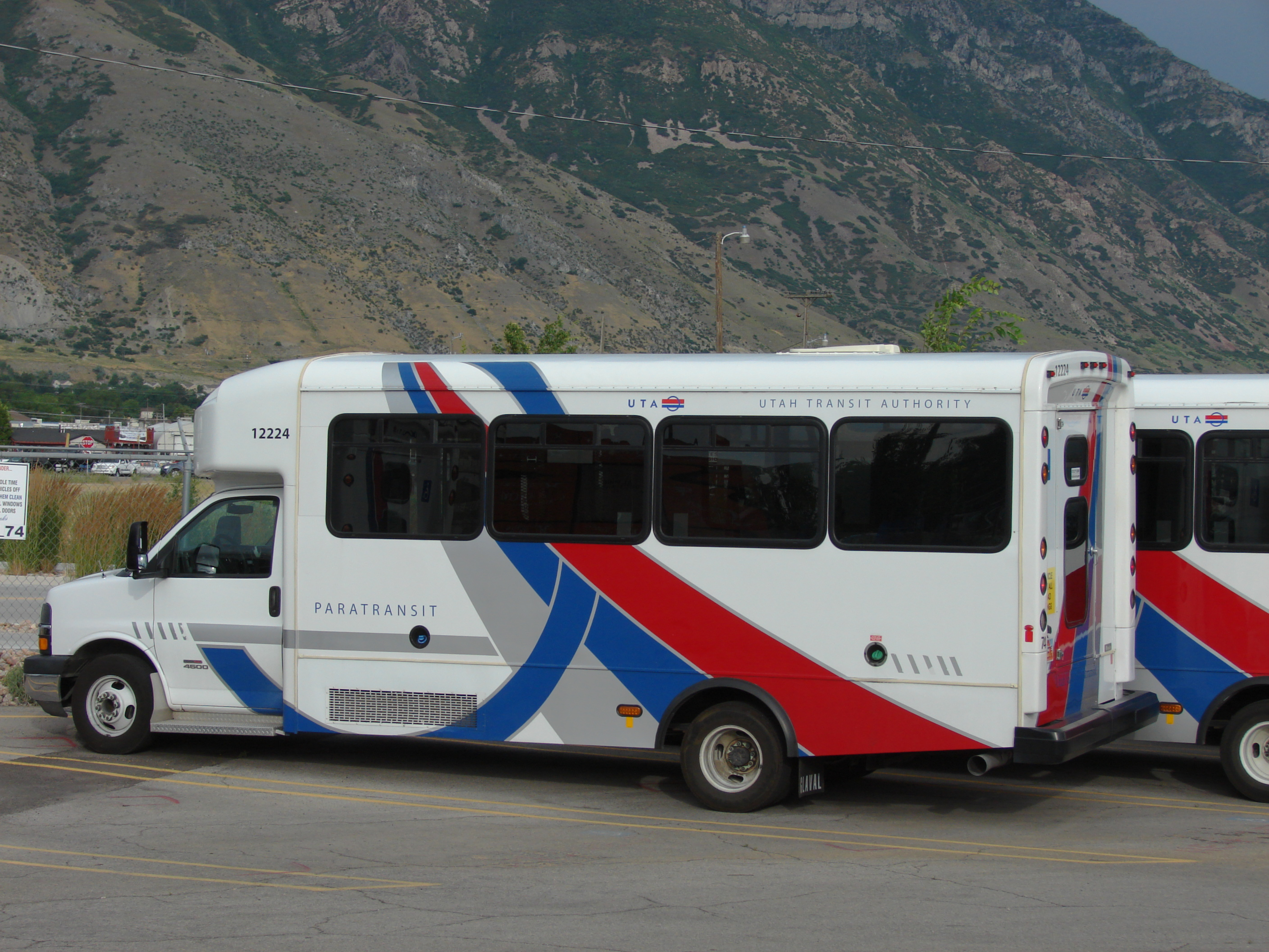 An example of a Utah Transit Authority Paratransit bus